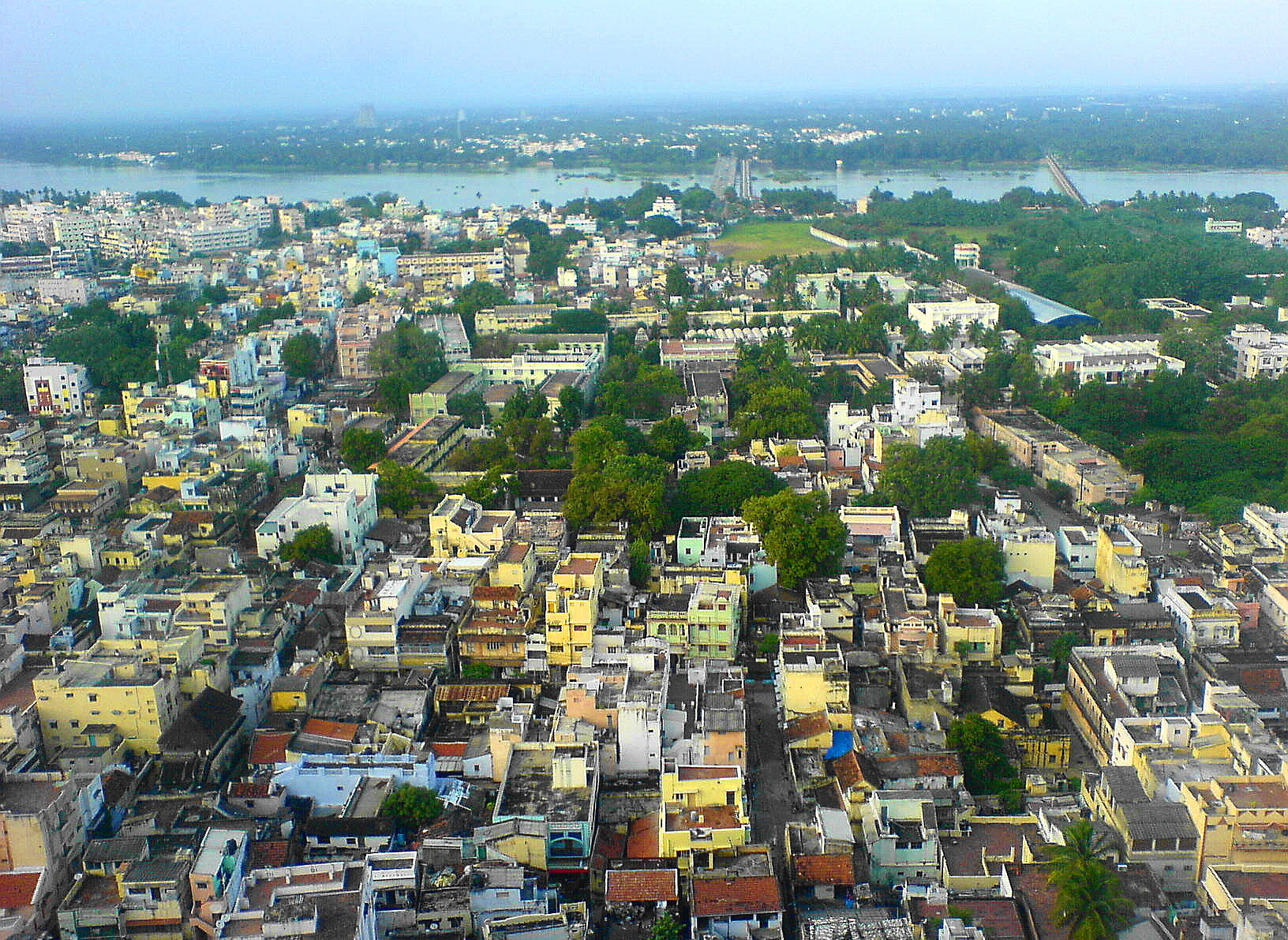 Aerial View of Trichy city looking towards Kaveri River Bridge and Srirangam.